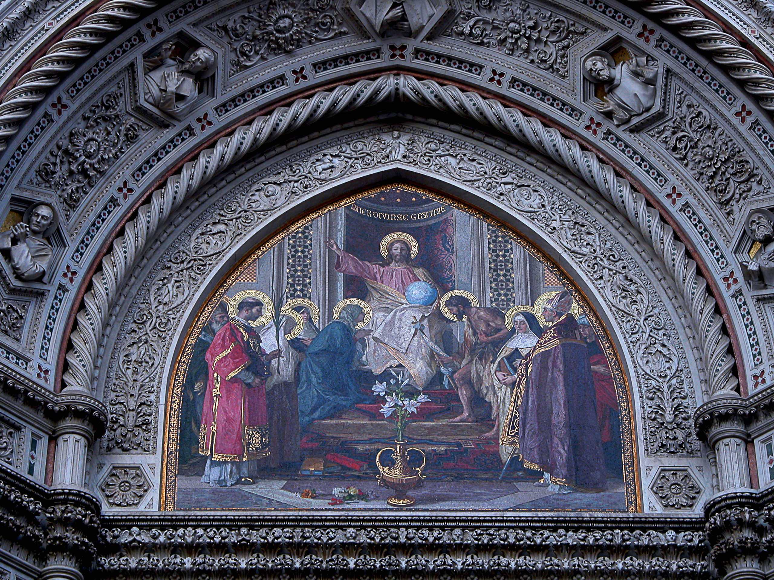 View of the front door of the Duomo church, Florence (Italy)